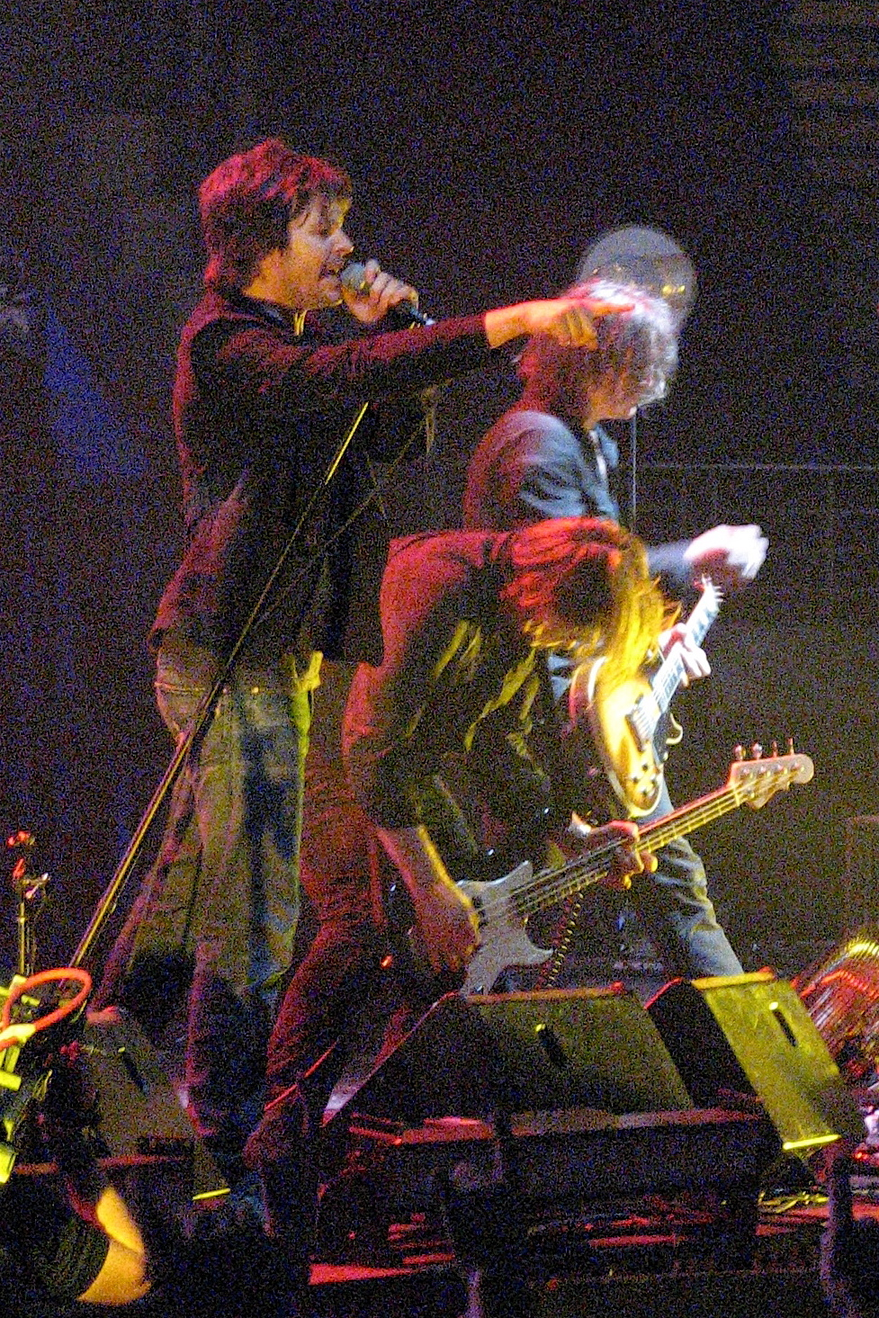 Photo of Powderfinger performing.